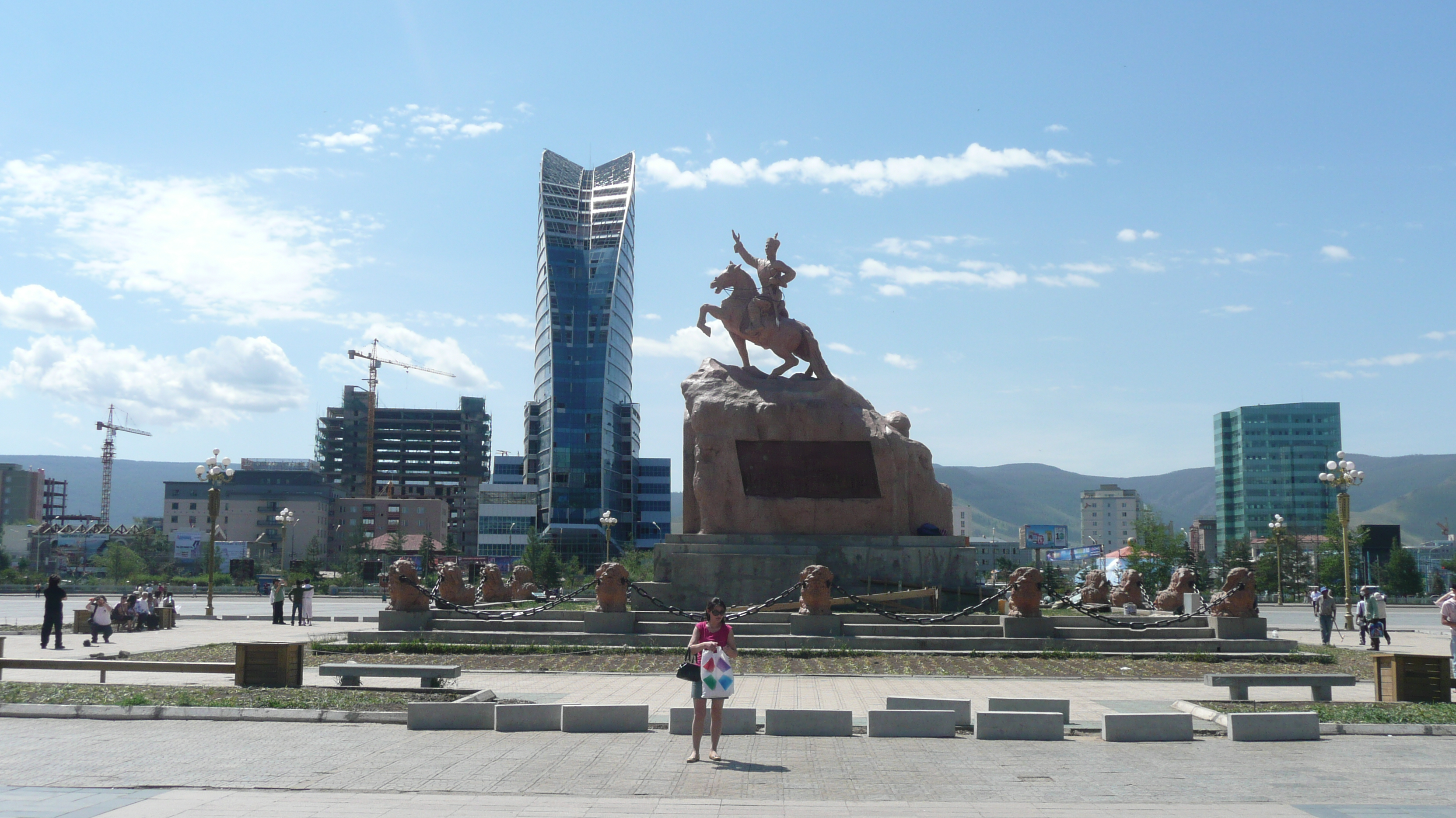 Sükhbaatar Square in Ulan Bator